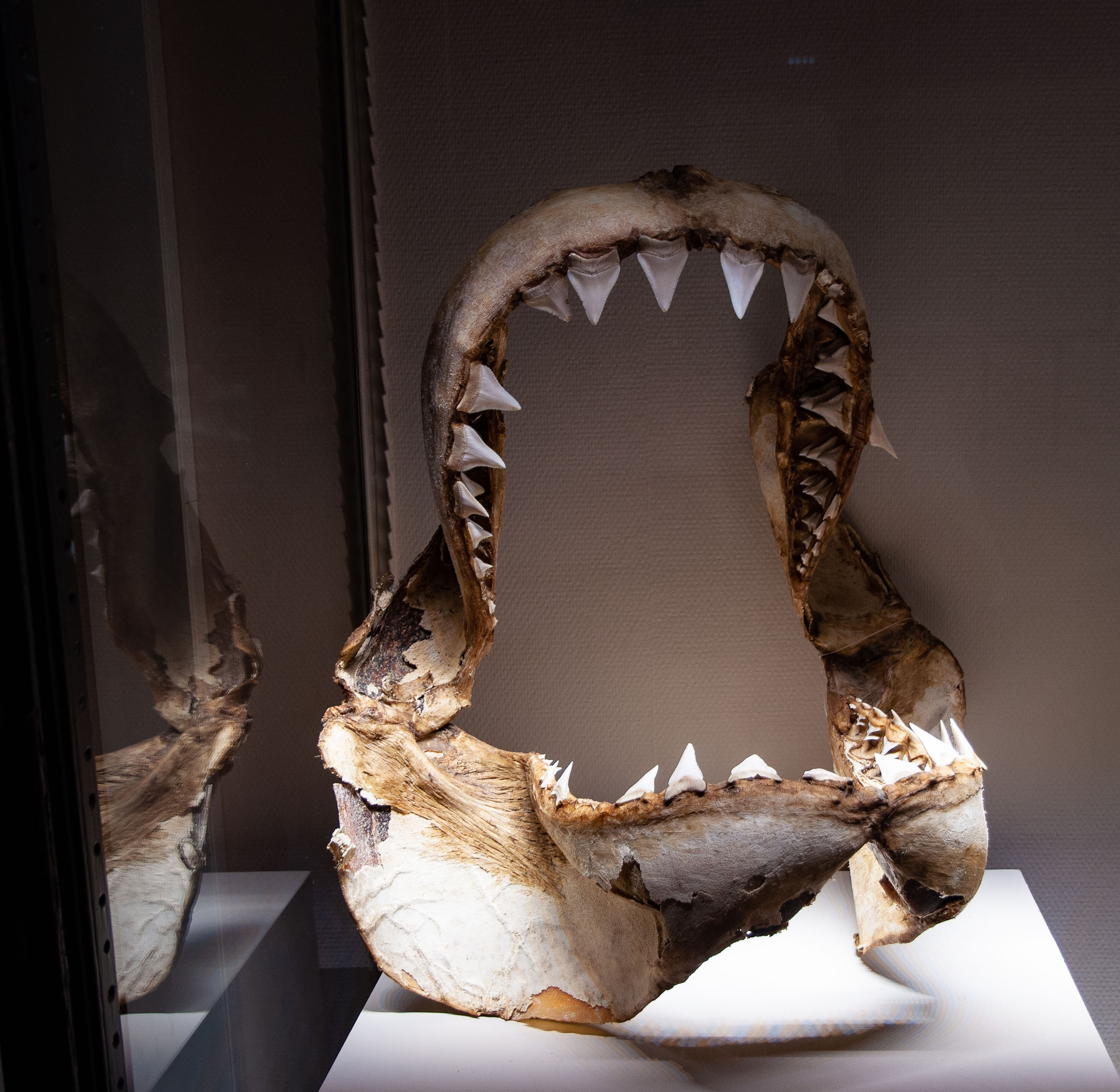 Skeleton of a white shark jaw on display in the Whale Room of the Oceanographic Museum of Monaco.